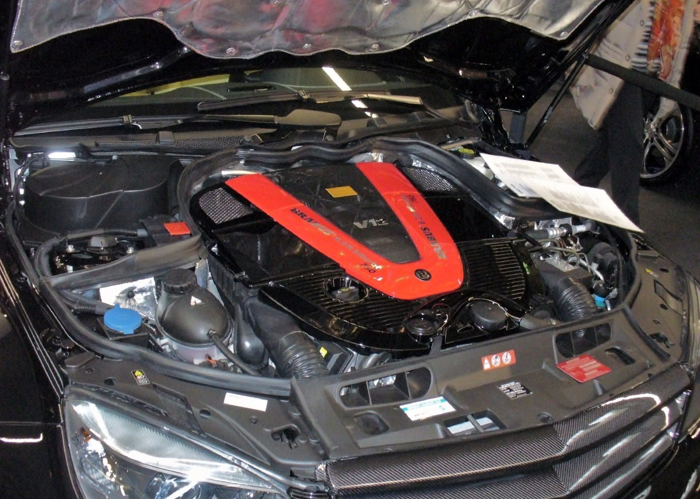 Brabus Bullit